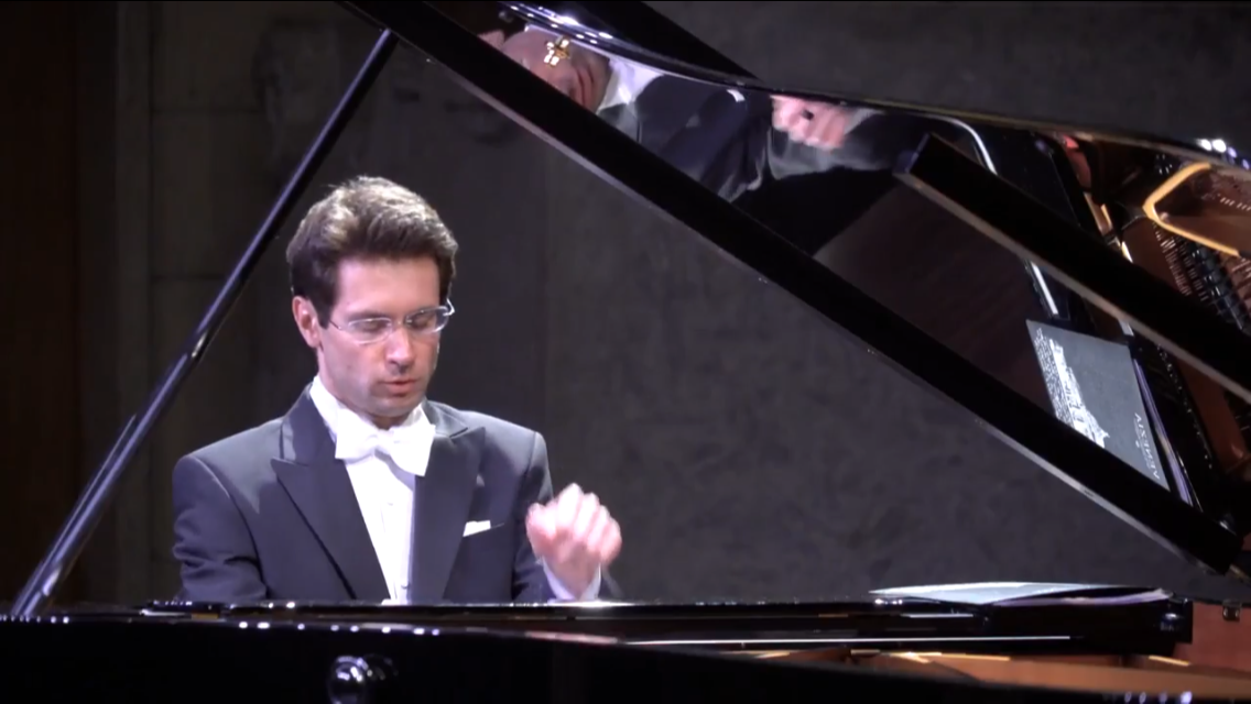 Pianist and conductor Mikhail Antonenko plays at the Moscow Conservatory